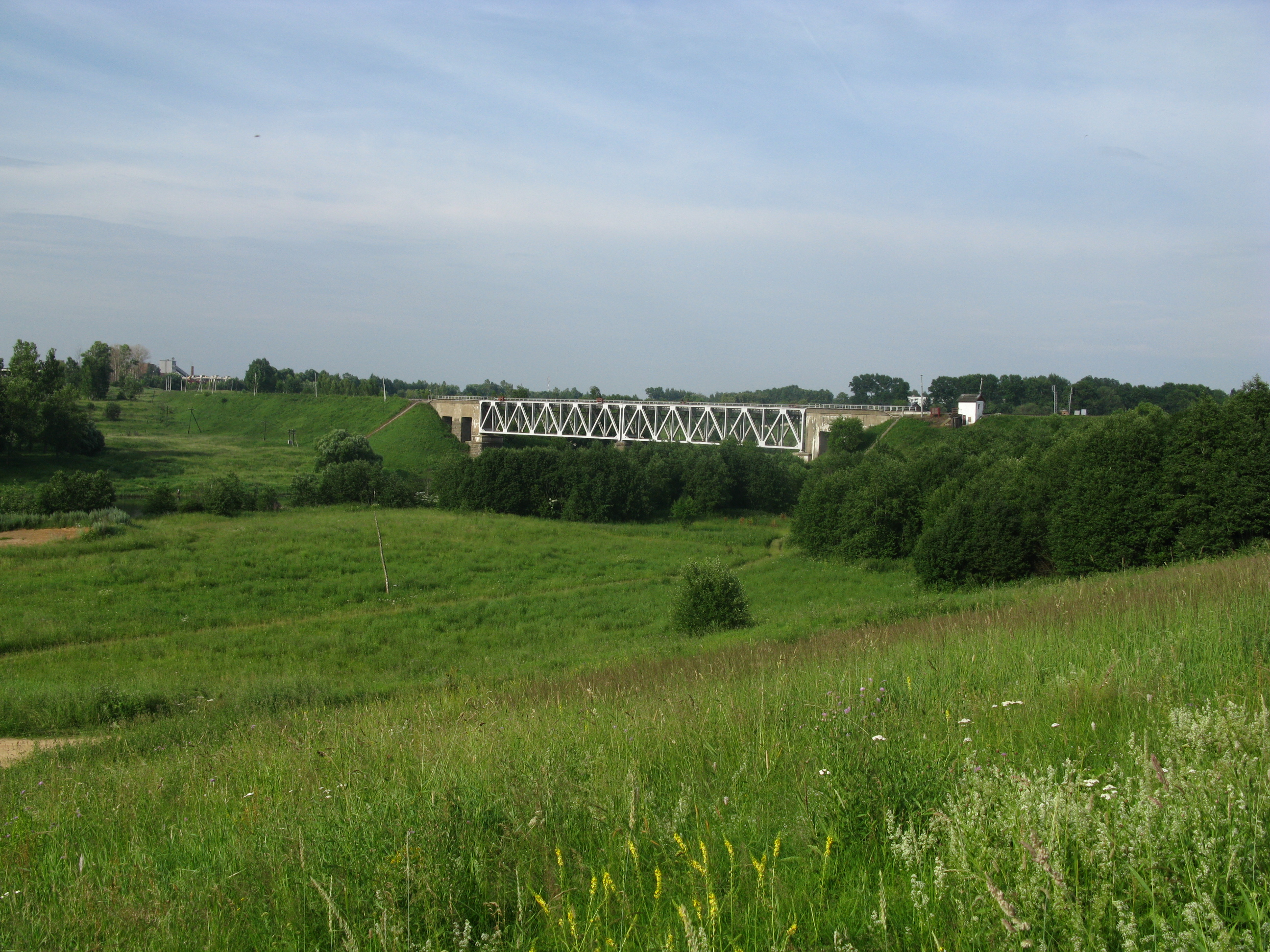 Rail bridge over the Volga river in Rzhev